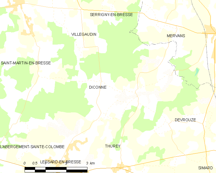 Map of French municipality